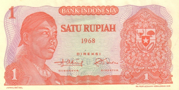 Indonesian currency issued 1976-2000.